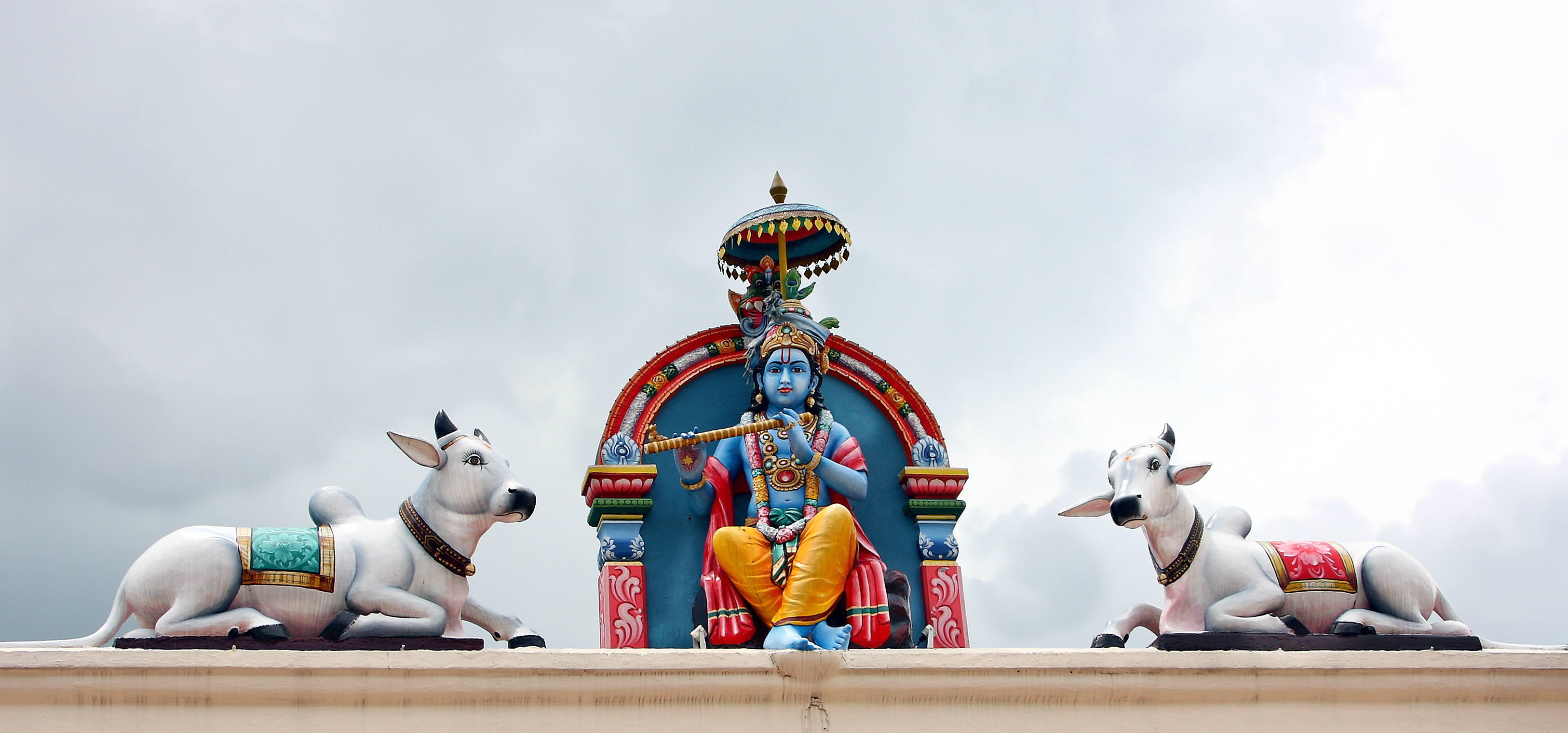 Krishna Statue at the Sri Mariamman Temple (Singapore)